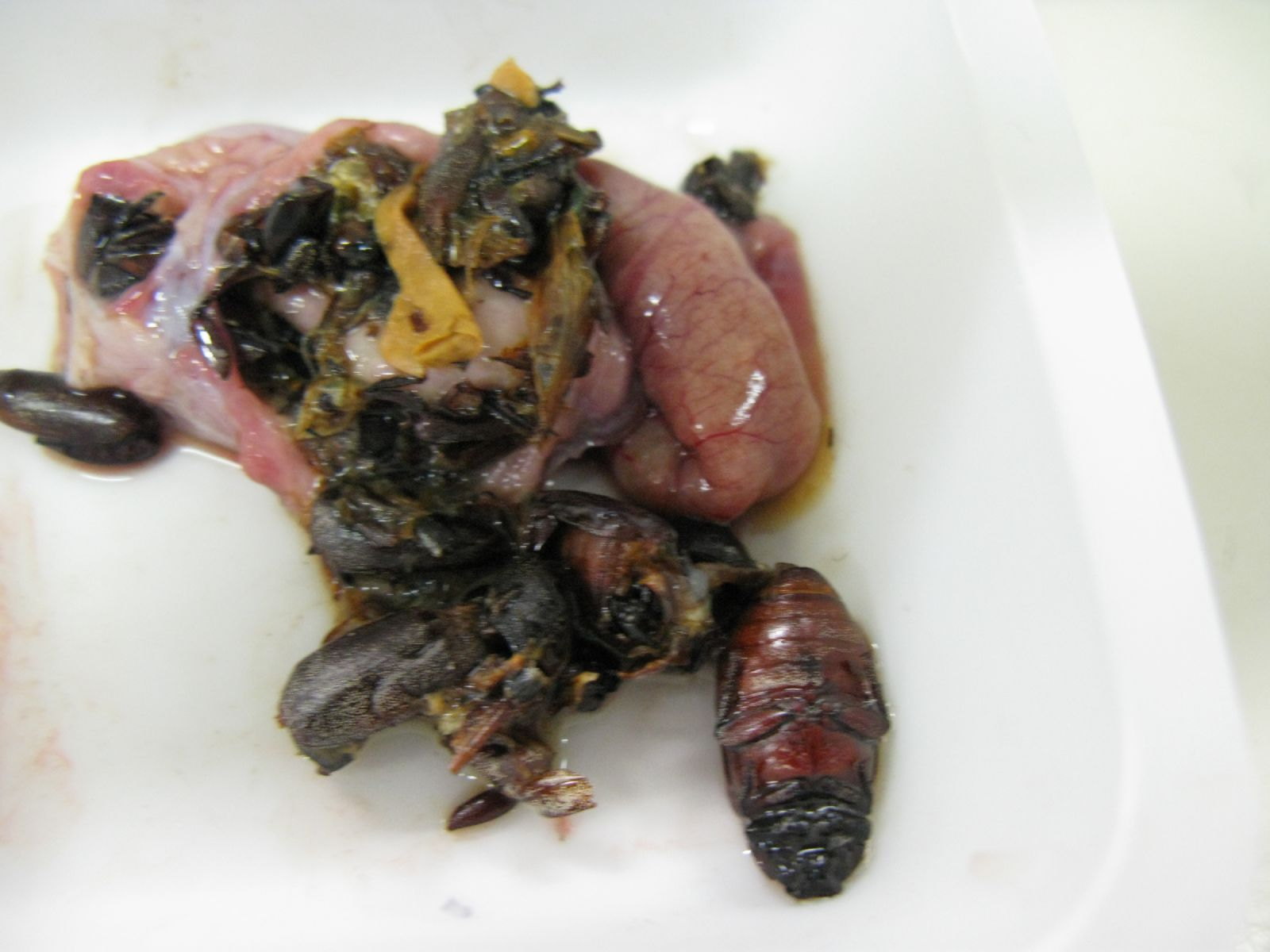 This is my cane toad's stomach, which contained 5 actually identifiable different types of beetle. There were probably more species, but the rest of it was all beetle bits and since I could identify so much I didn't have to go further than that. Most of my classmates had toads with very little in their stomachs and had to get out the microscopes and identify what they could. She couldn't have eaten any more, her stomach was packed and very hard before dissection. As my professor put it, "Wow! She was on to a REALLY good thing!"